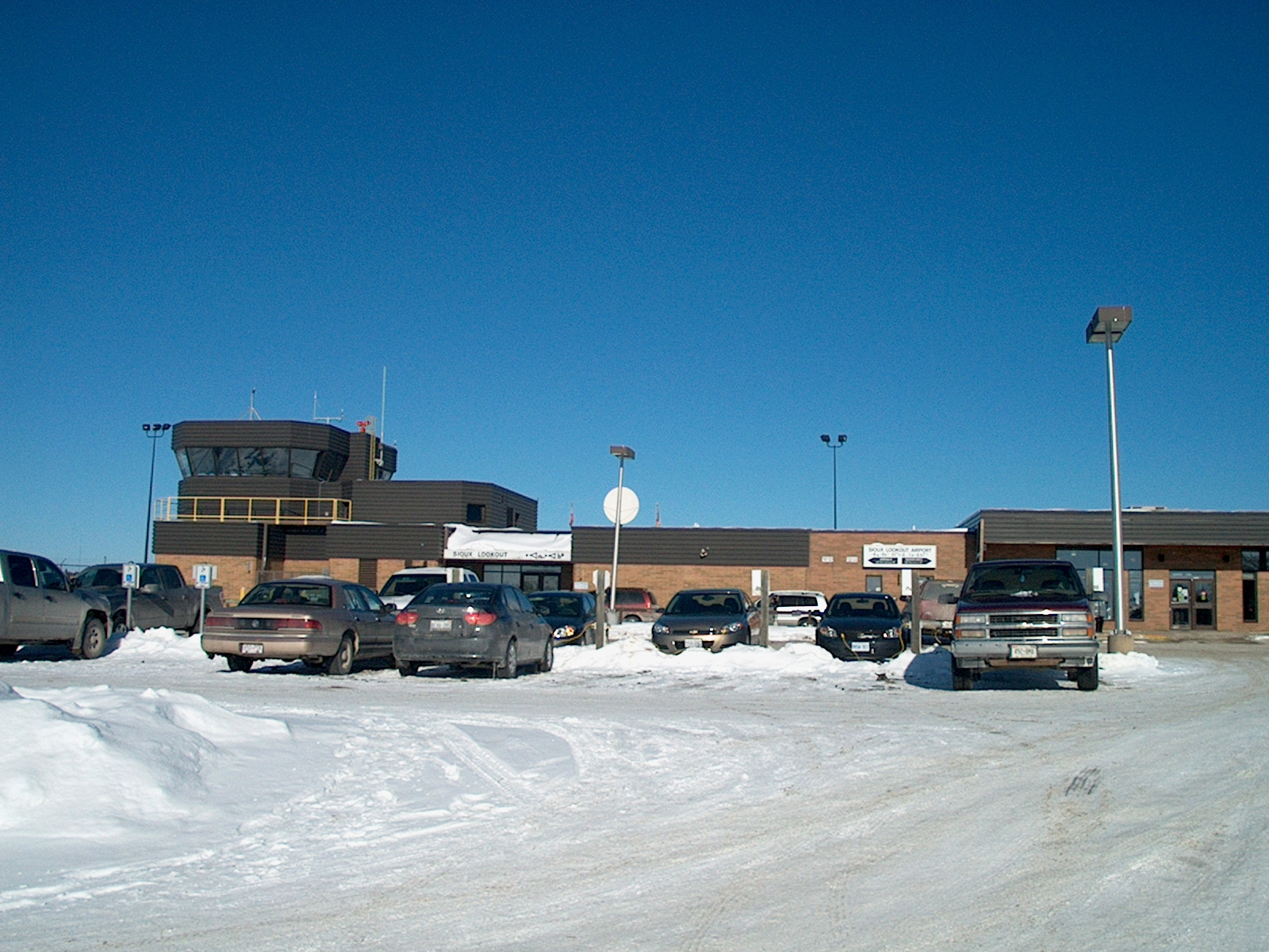 Sioux Lookout airport terminal.